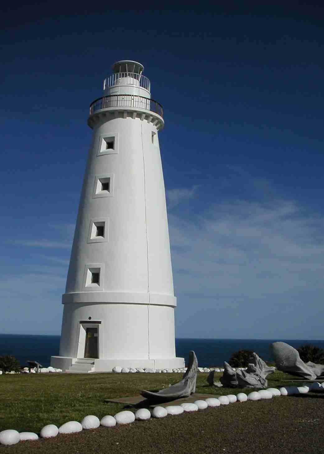 Cape Willoughby Light, Kangaroo Island, South Australia.